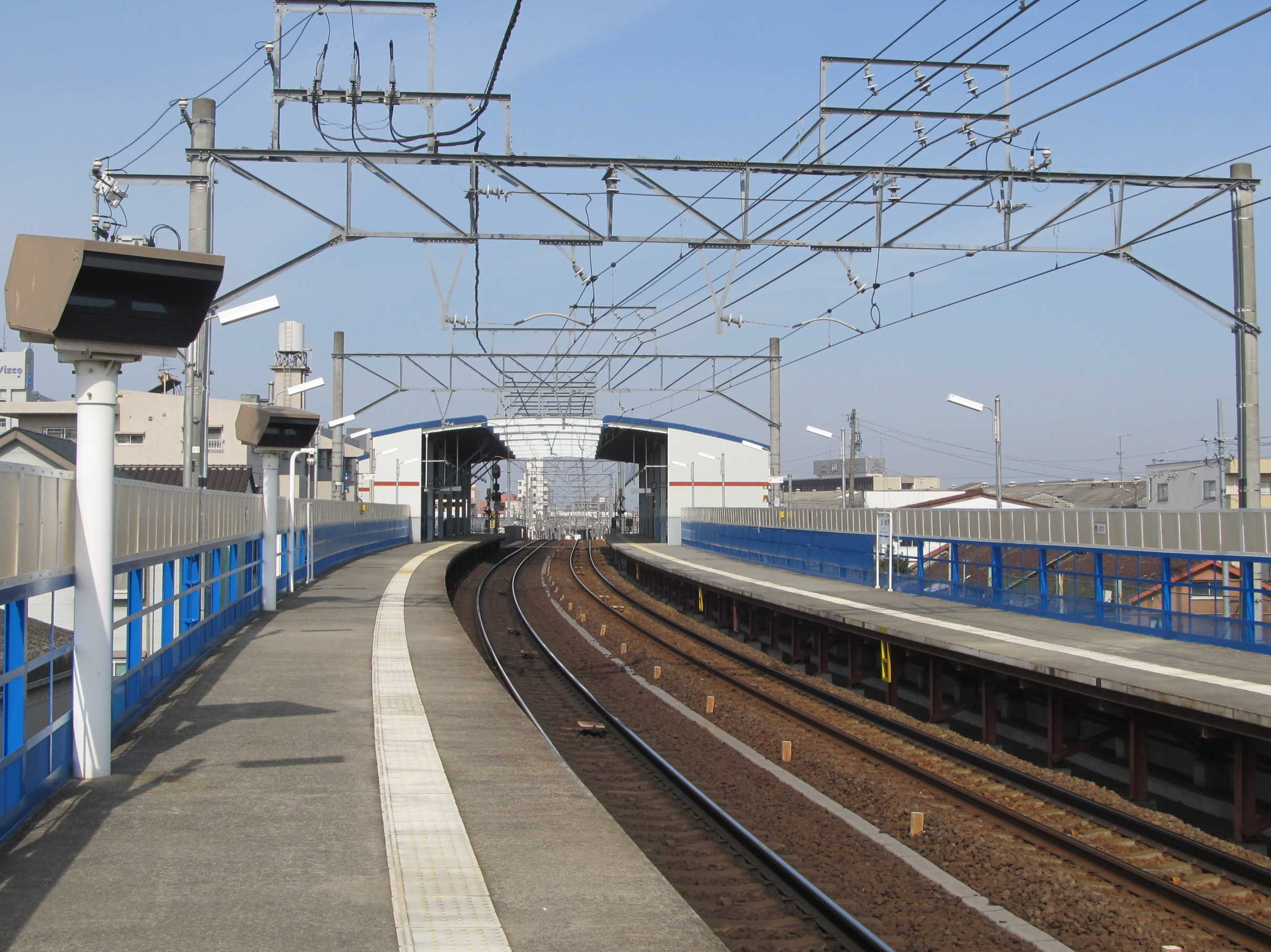 Nagoya Railroad Nagoya Main Line Shinkawa-bashi Station Platform